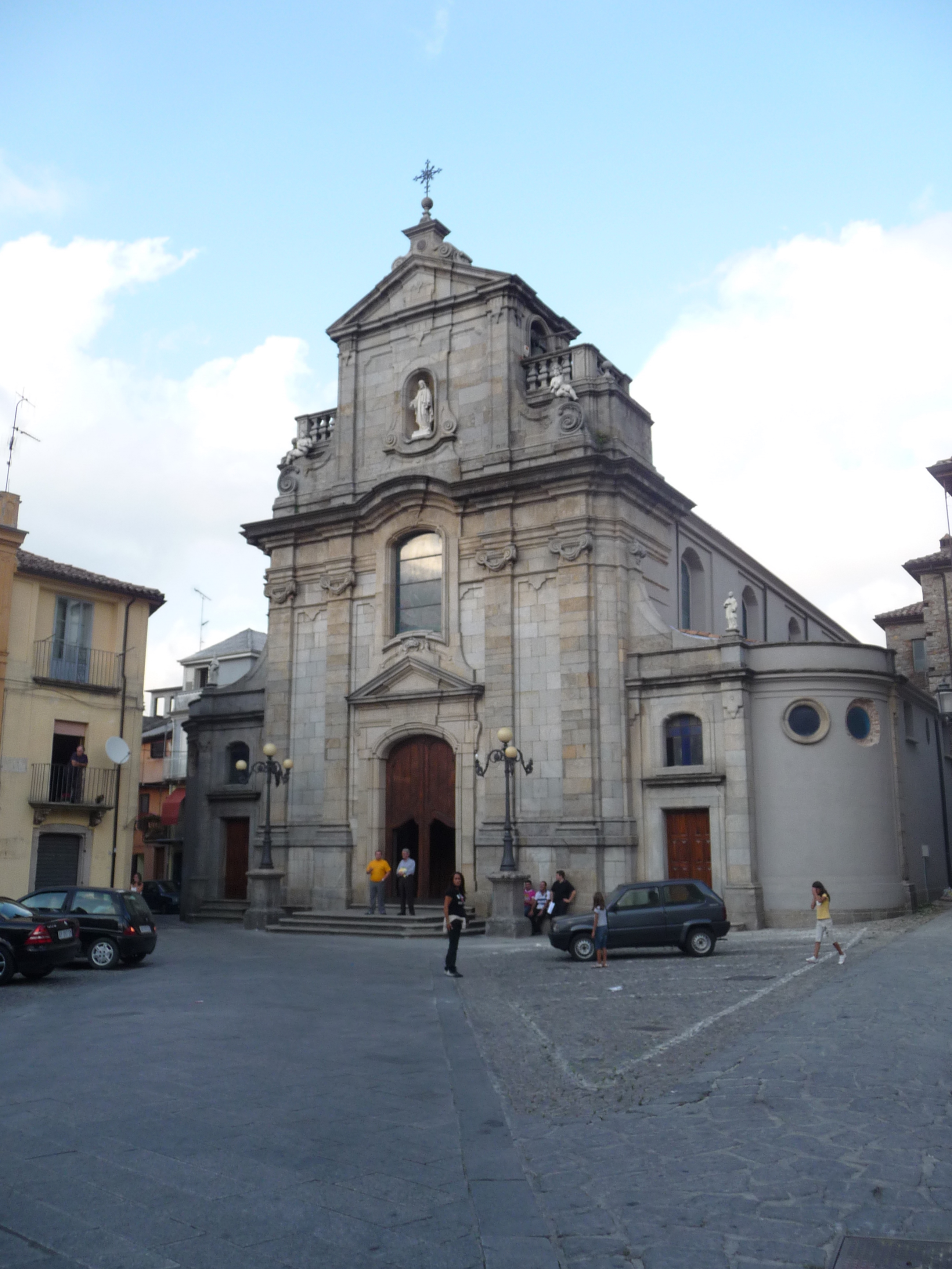 Church of San Biagio or Matrice of Serra San Bruno